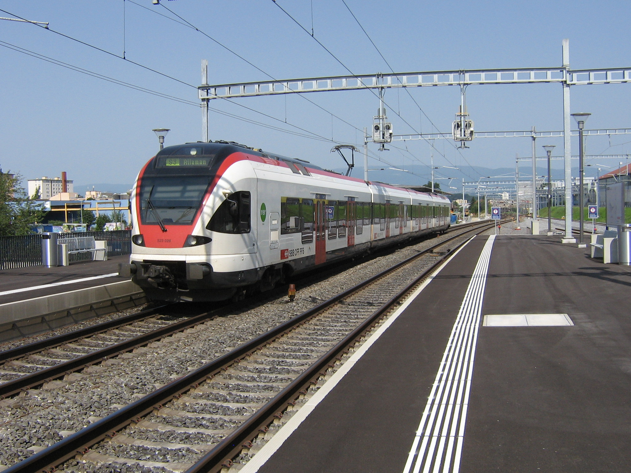 S3 leaving the railway station of Prilly-Malley, in direction to the railway station of Renens.